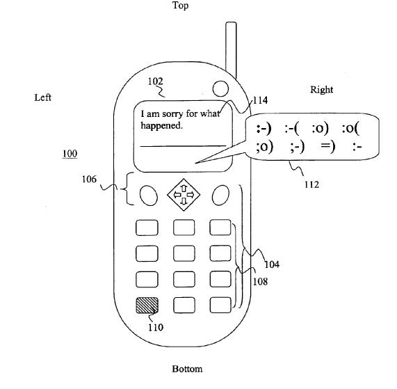 Image from US patent 6987991